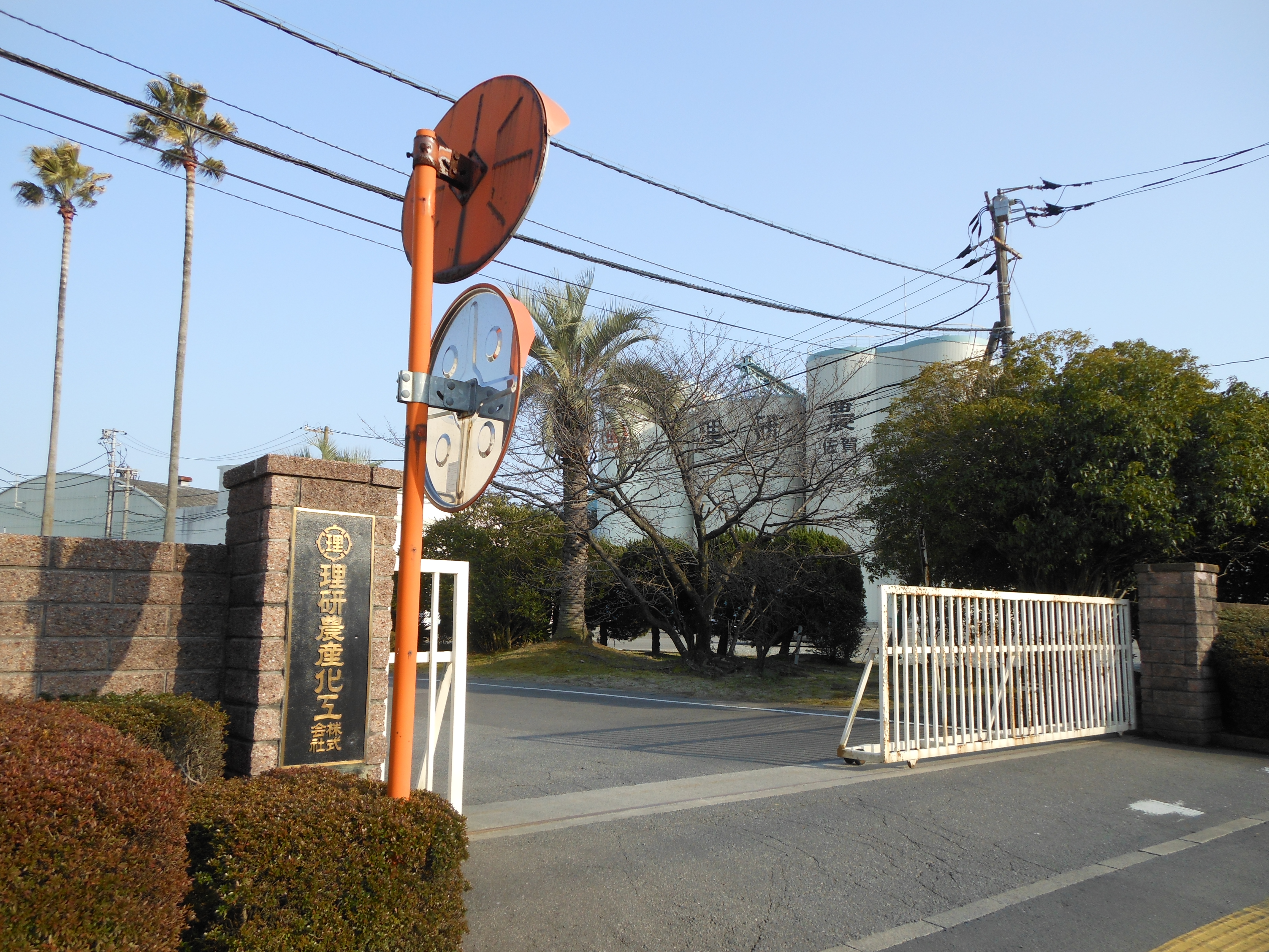 A headquarter of RIKEN Nosan-Kako, a foods company in Saga.